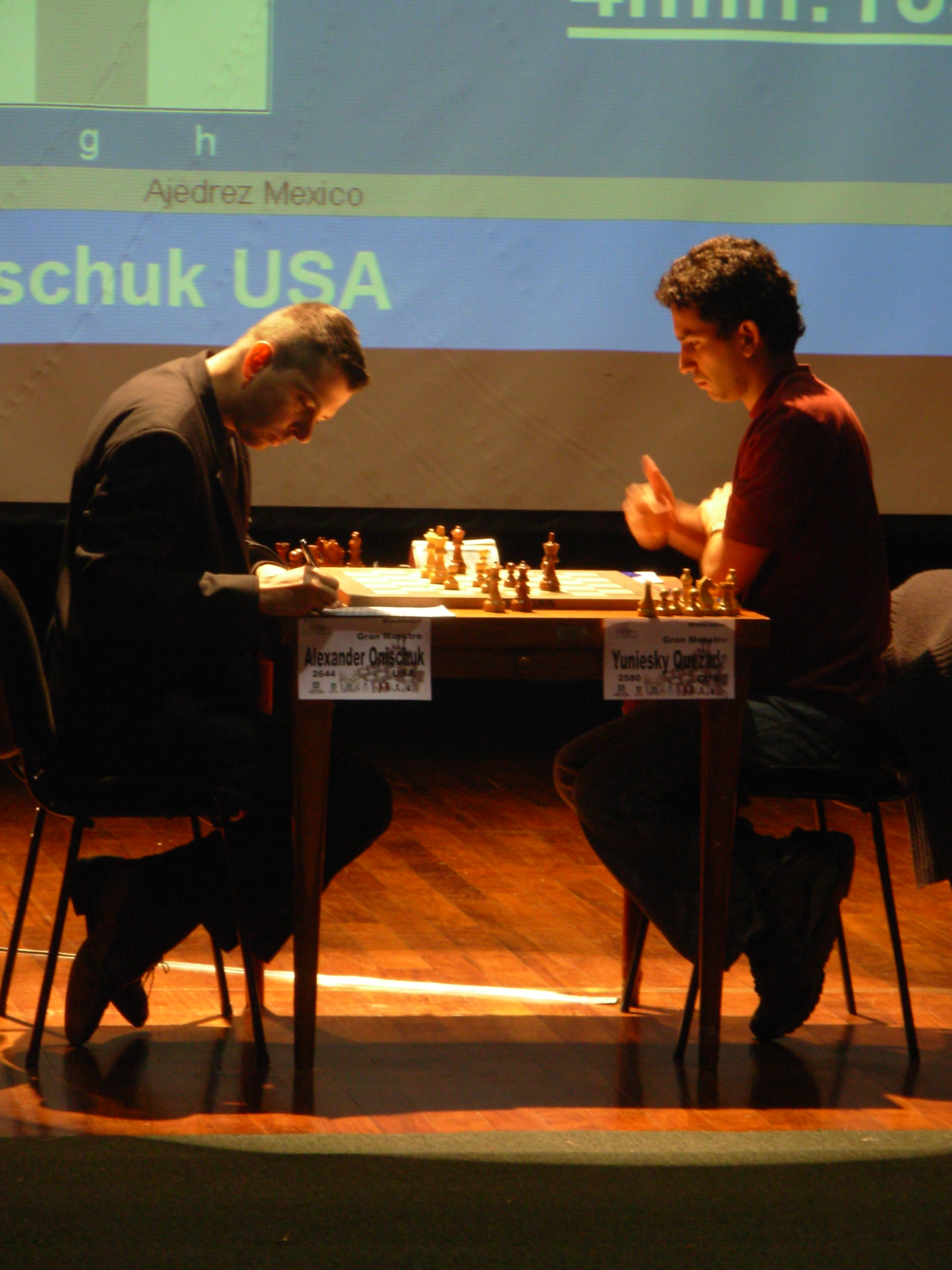 Merida 2008 - the Final of Carlos Torre Repetto Memorial, GM Alexander Onischuk United States of America (left) vs. GM Yuniesky Quezada Perez Cuba.